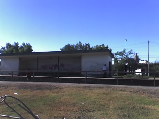 Marinos del Crucero General Belgrano railway station, in the rural area of Merlo.